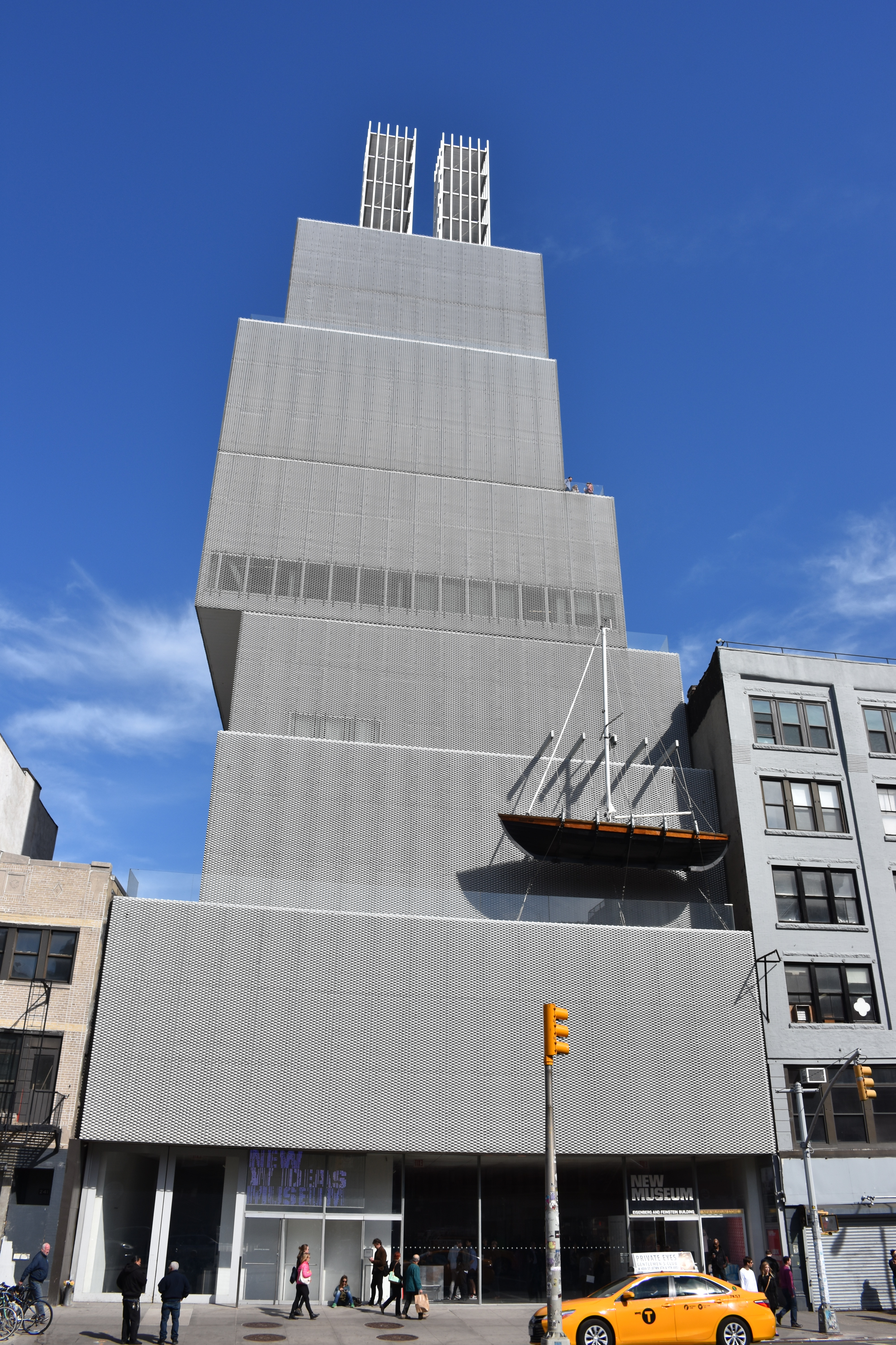 The New Museum in New York City in April 2015